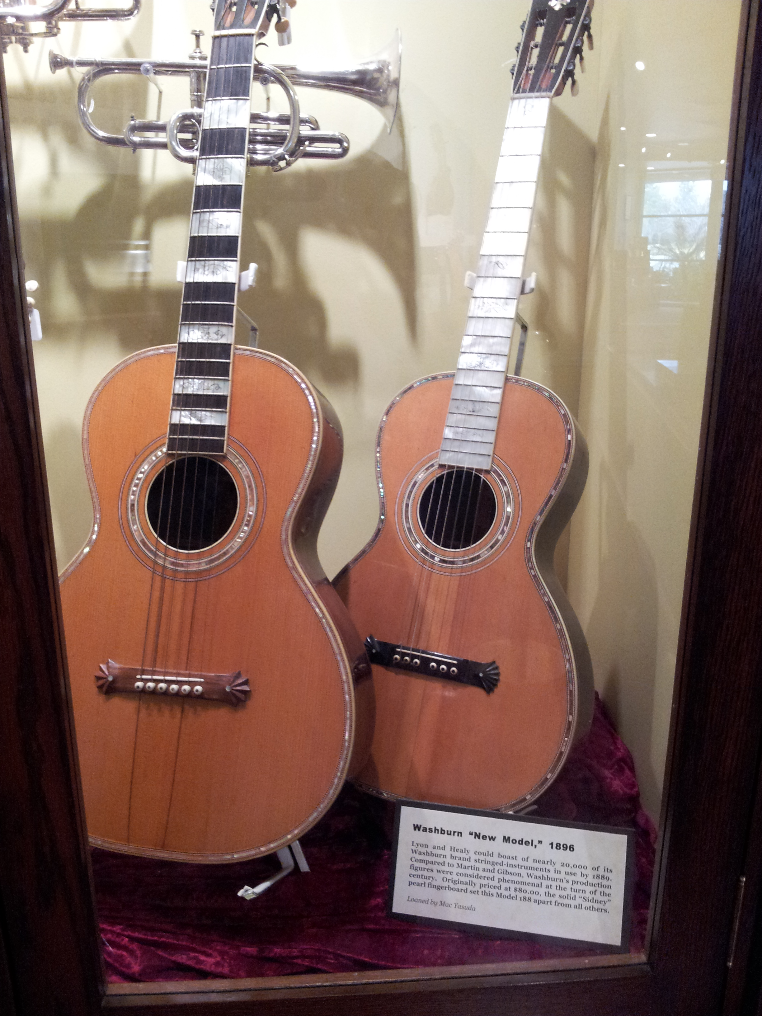 Museum of Making Music Washburn Parlor Guitar (1894) (⇒ see description panel on other photo) Loaned from the personal collection of Rudy Schlacter, Washburn Intl. Washburn "New Model" (1896) Lyon and Healy could boast of nearly 20,000 of its Washburn brand stringed-instruments in use by 1889. Compared to Martin and Gibson, Washburn's production figures were considered phenomenal at the turn of the century. Originally priced at $80.00, the solid "Sidney" pearl fingerboard set this Model 188 apart from all others. Loaned by Mac Yasuda